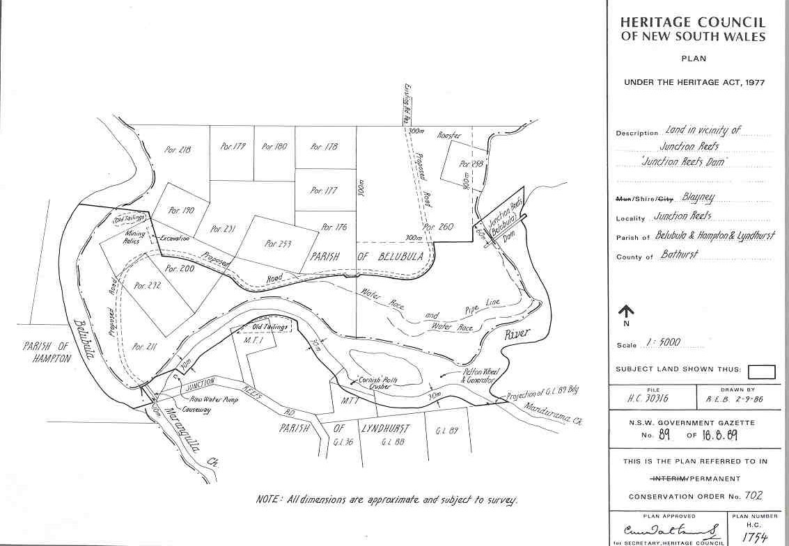 Junction Reefs Dam: PCO Plan Number 1754